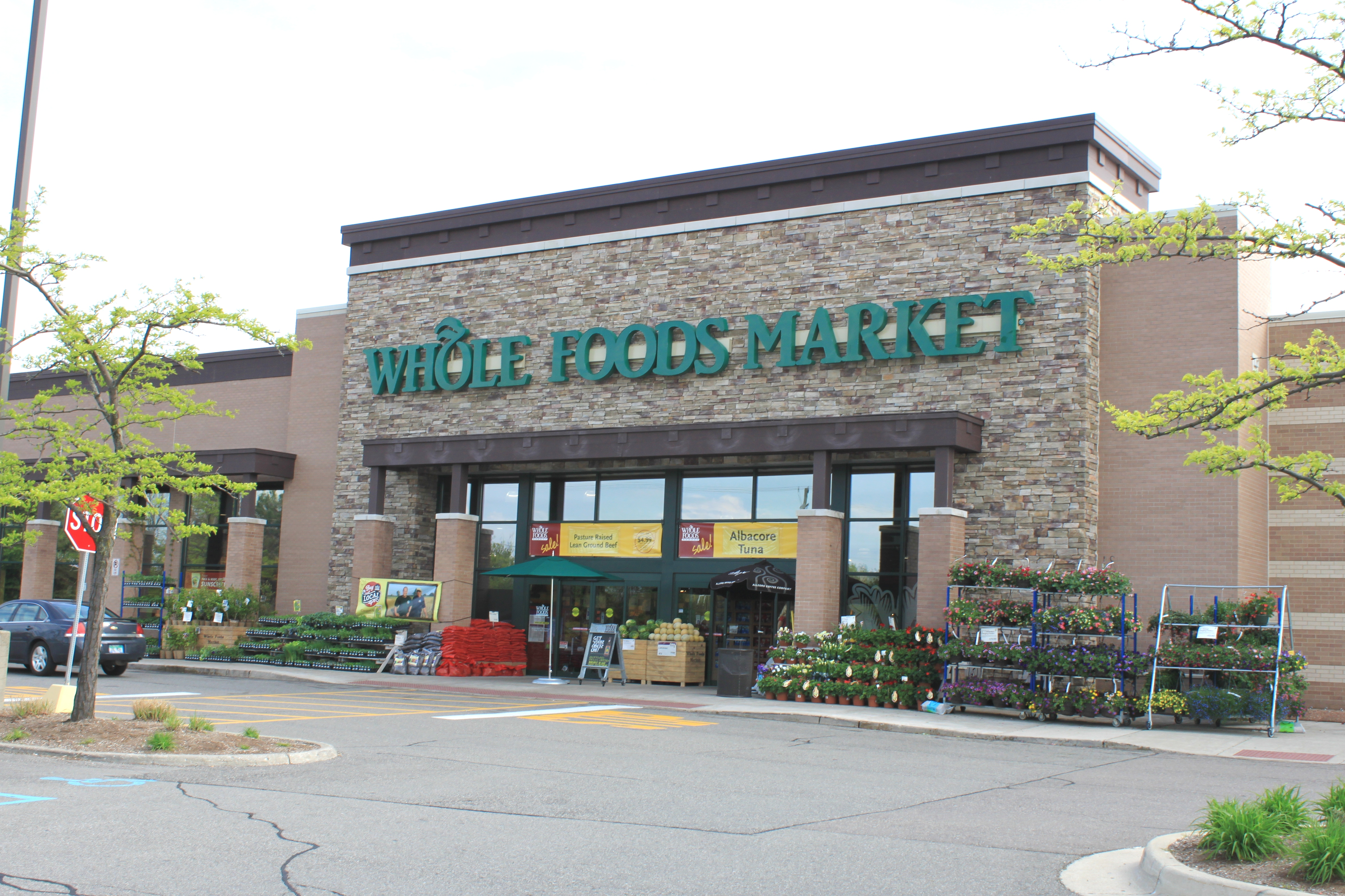 Whole Foods Market, Cranbrook Village Shopping Center, 990 West Eisenhower Parkway, Ann Arbor, Michigan.